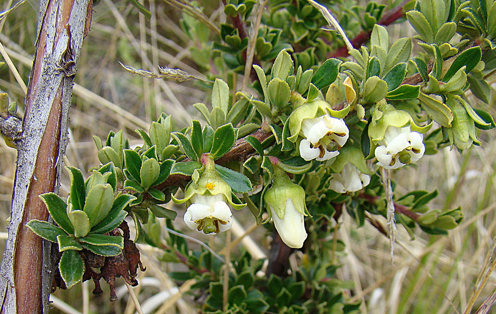 One form of this species in the Aija Valley of Peru, where it is known as Chachacomo. In context at